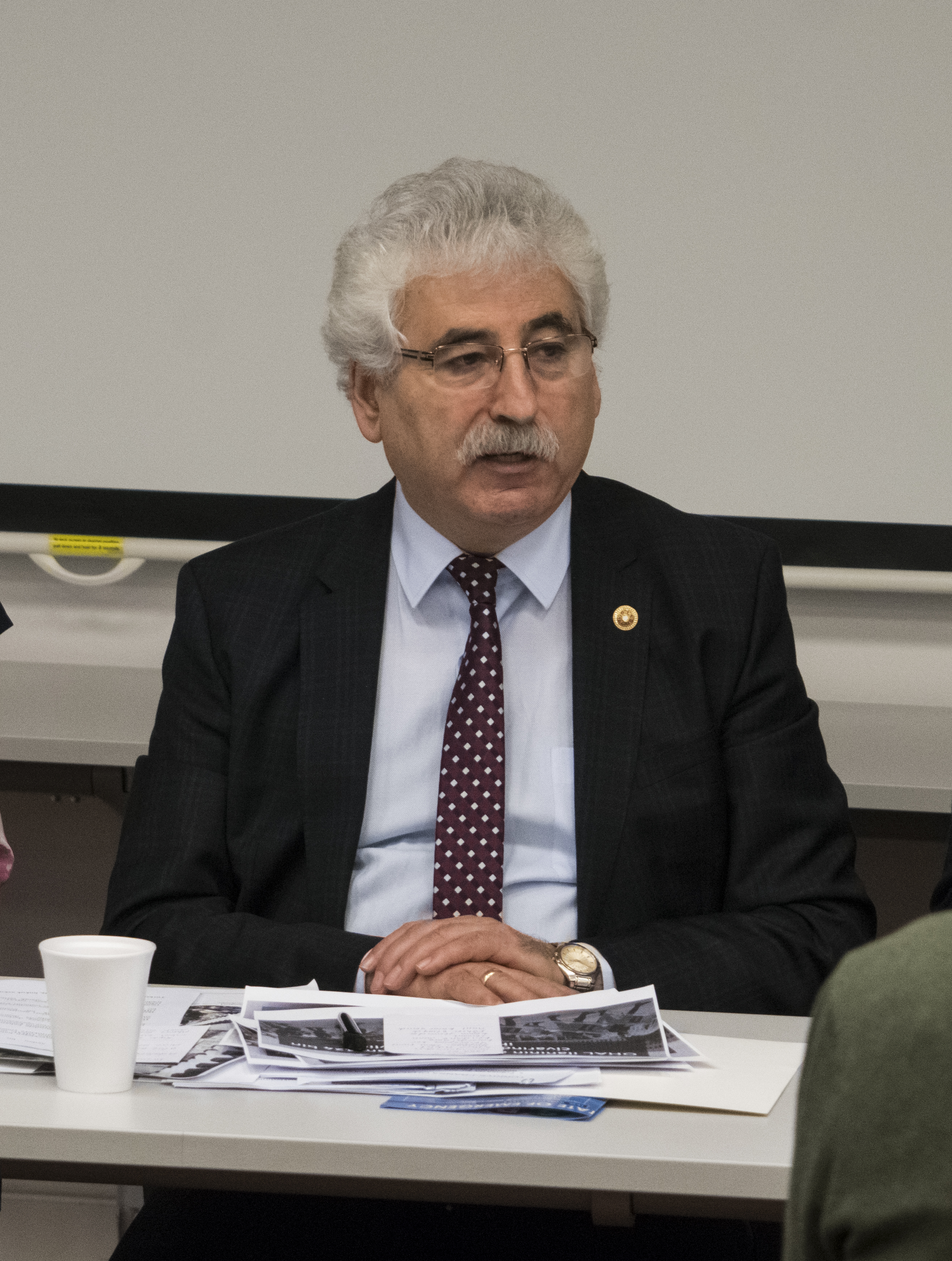 SPOT conference "Turkey under the state of emergency" on 20 January 2018